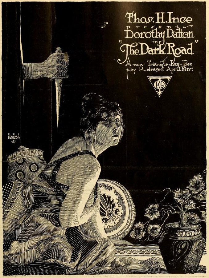 Advertisement in Moving Picture World